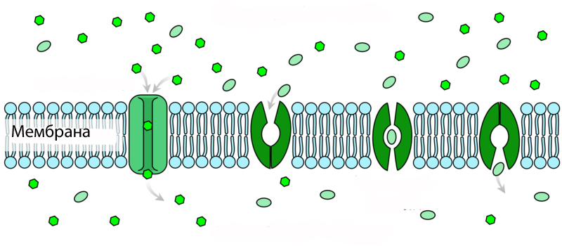 This file was taken from german wikipedia article (Blut-Hirn-Schranke) which was made under free licence. I changed german words in russian with Photoshop